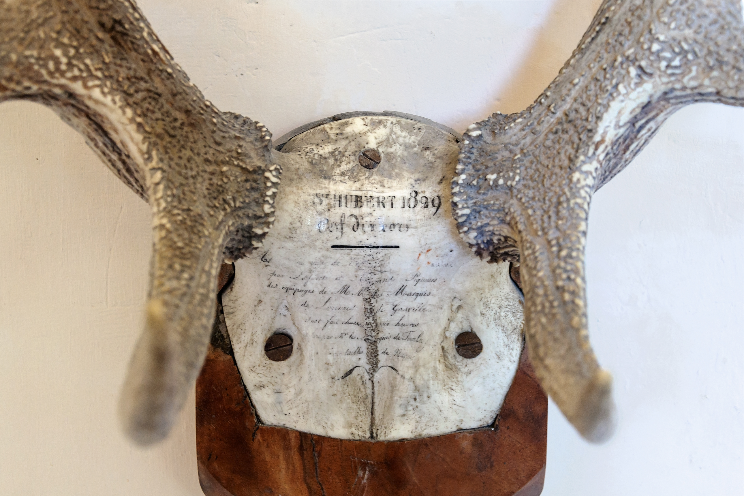 Detail of a trophy of a deer hunted on St Hubert's day 1829 - Château de Tanlay, Yonne department, Burgundy, France.